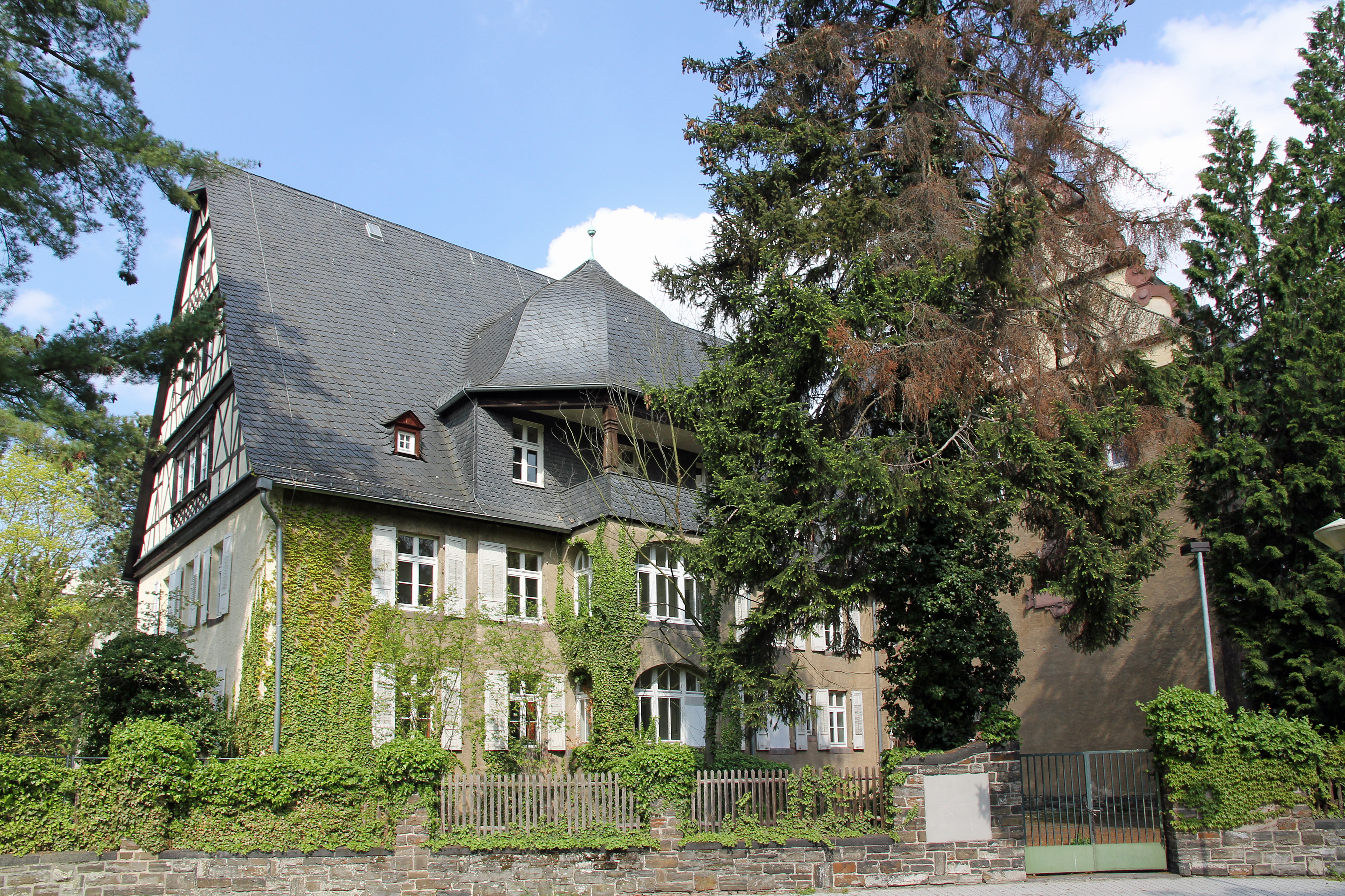 Former prussian teachers seminar in Koblenz